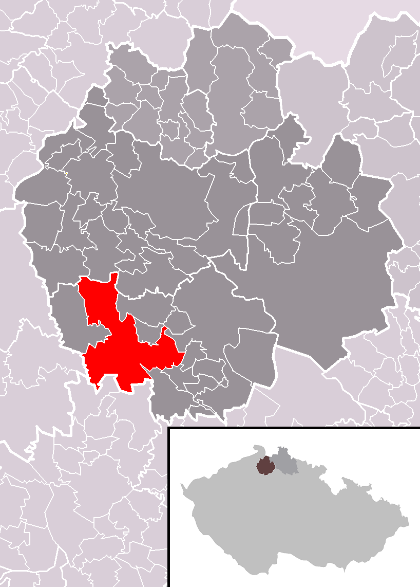 Location of Dubá town within Česká Lípa District and administrative area of Česká Lípa as a Municipality with Extended Competence.